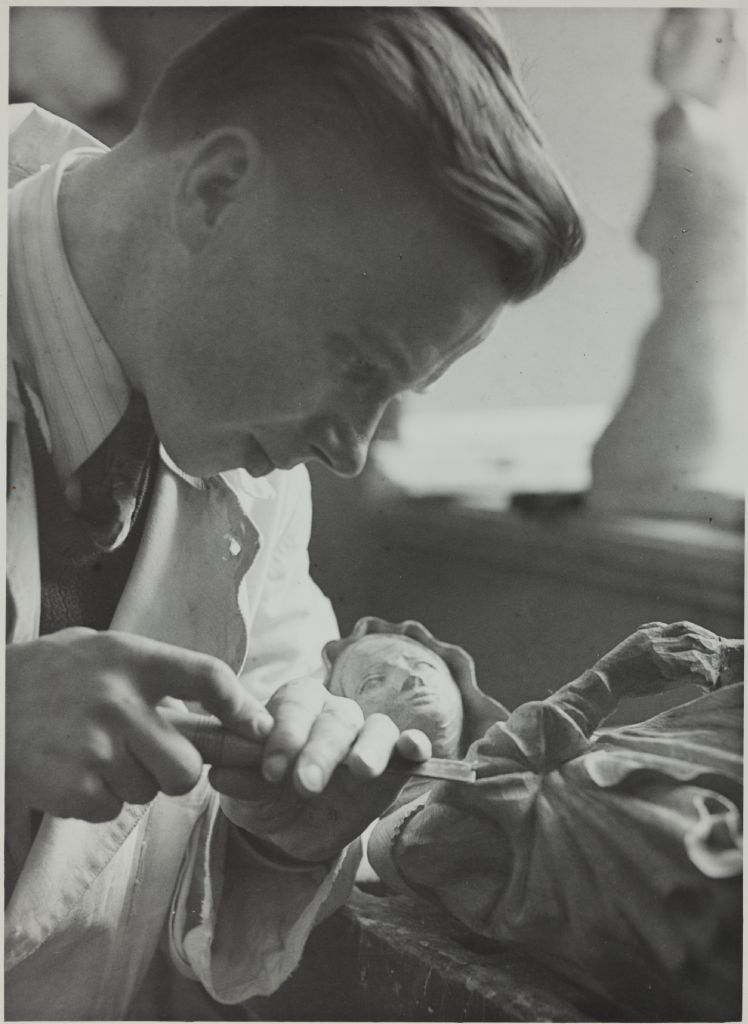 Photograph of the Finnish sculptor Heikki Konttinen (1910–1988) working at University of Art and Design in Helsinki.